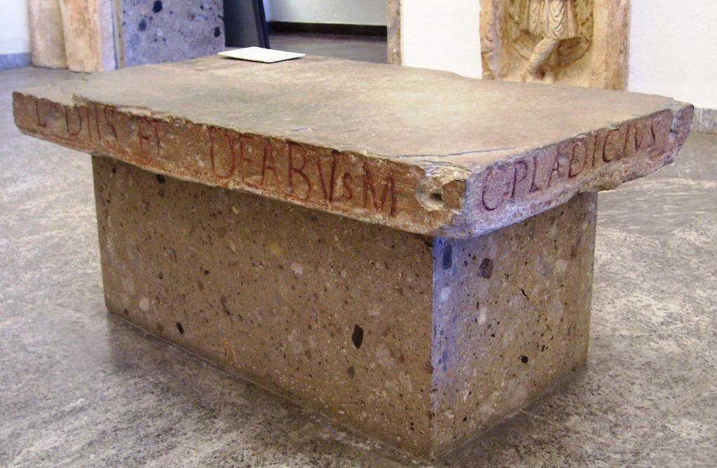 Rectangular table with a sacred inscription engraved on three edges. From 1786 kept by mr. Simoni in Bienno (BS), now in the Archaeological Museum in Bergamo (inv. 974). Origin: Cividate Camuno, Val Camonica.